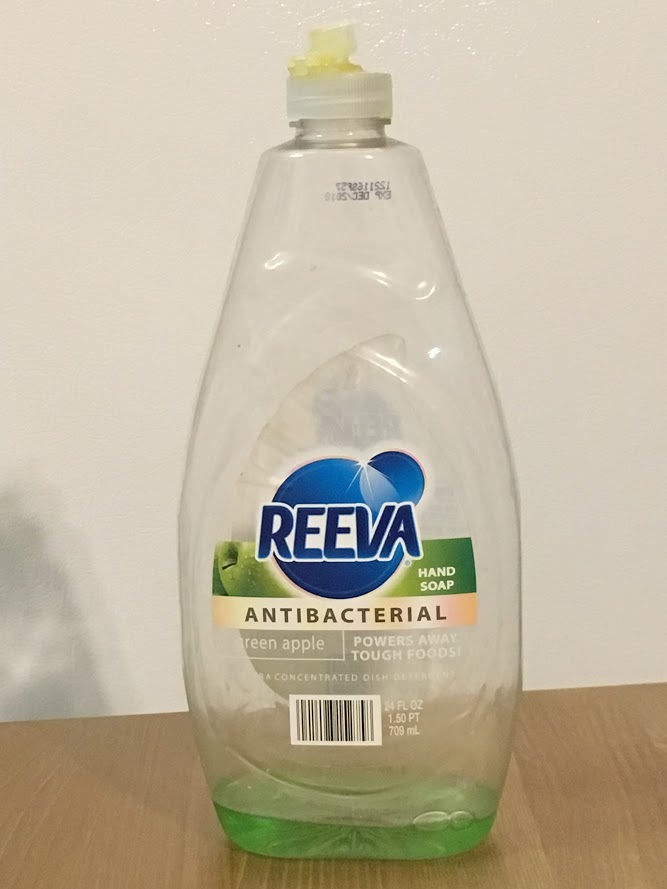 A near empty bottle of Reeva liquid soap marketed as "Antibacterial" with the active ingredient chloroxylenol, for the purposes of hands and dish cleanings.